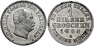 GERMAN STATES, Prussia. Wilhelm I. 1861-1888. AR 1 Silbergroschen (18mm, 2.13 gm). Dated 1868. Bare head right / Value and date. KM 485.1. UNC.